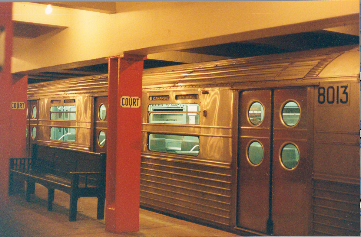 Exterior view of an R11/R34 subway car. New York Transit Museum.